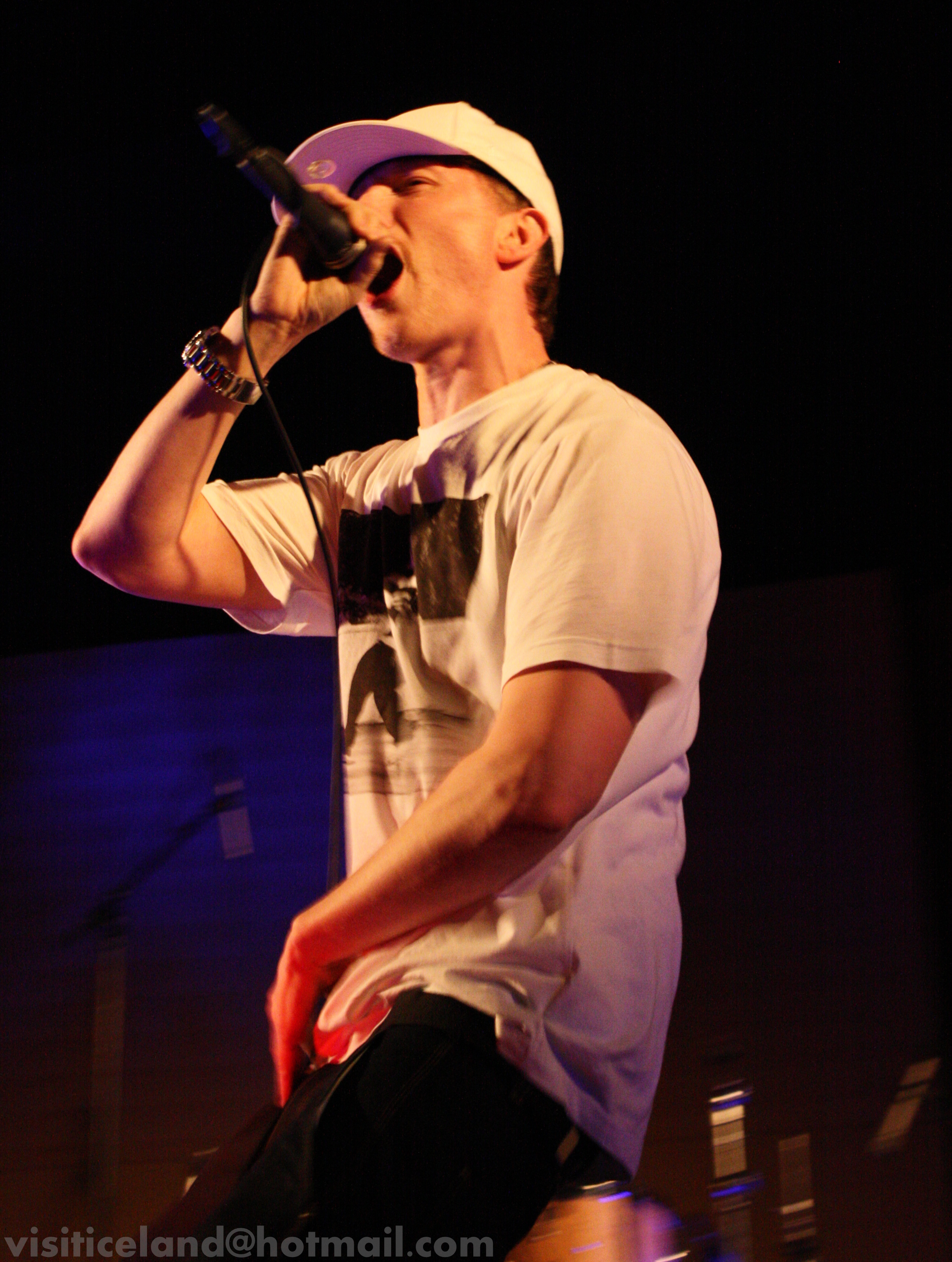 Erpur Eyvindarsson, an Icelandic rapper performs with the icelandic band Valdimar in memory of Rúnar Júlíusson, at what would have been Rúnar's 65th birthday.